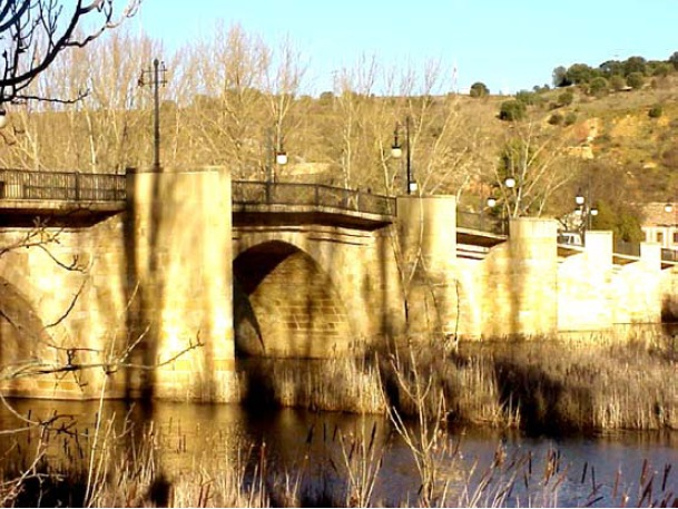 Puente de Piedra (Soria).